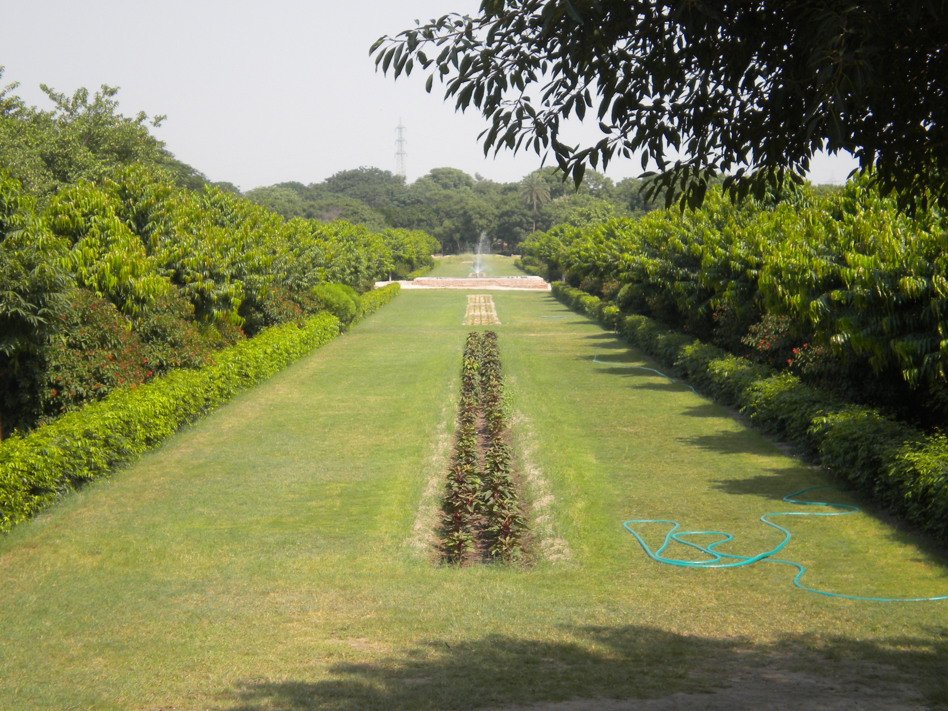 Lawn at Mehtab Bagh